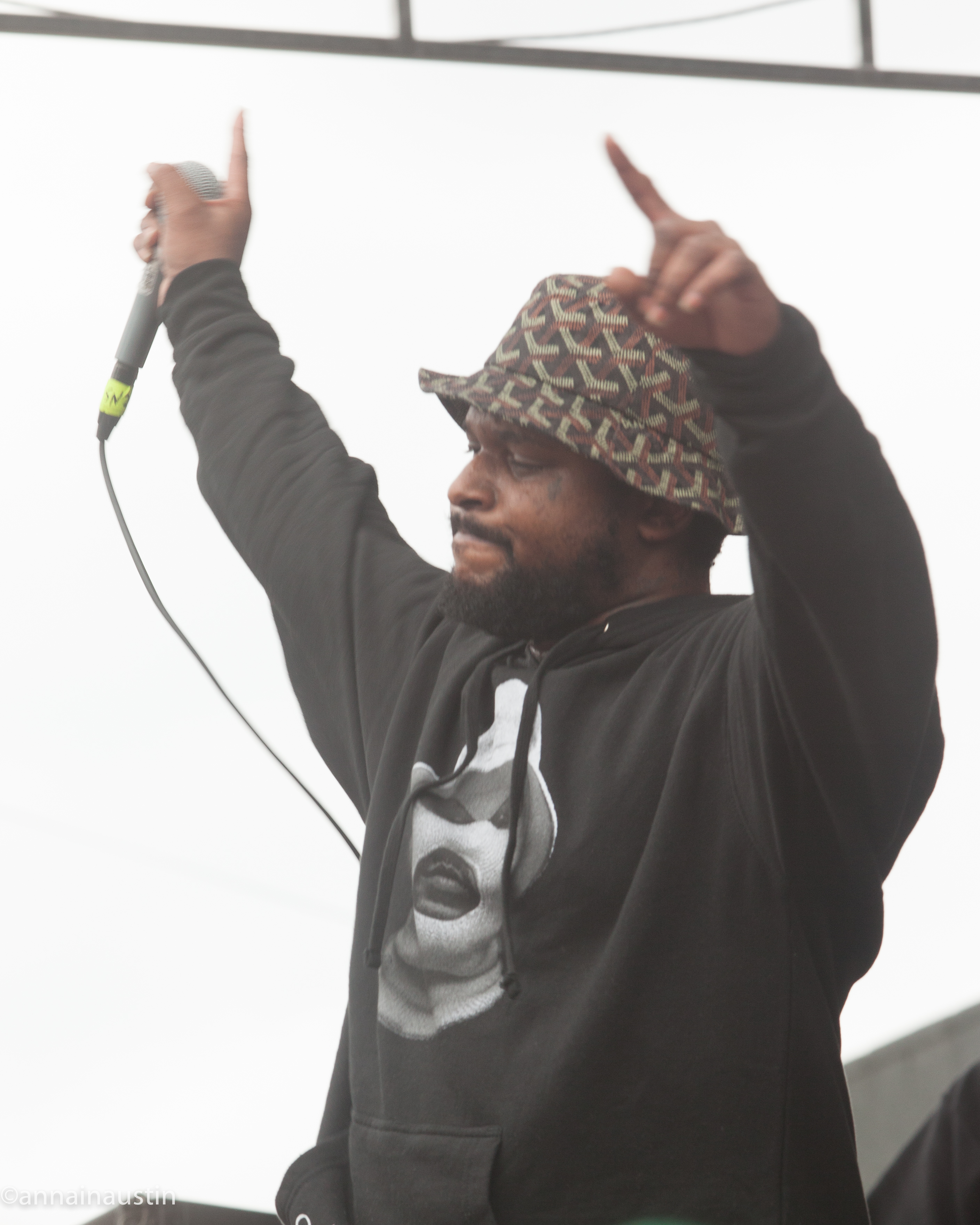 ScHoolboy Q at the SPIN party at Stubb's SXSW 2014--6.jpg